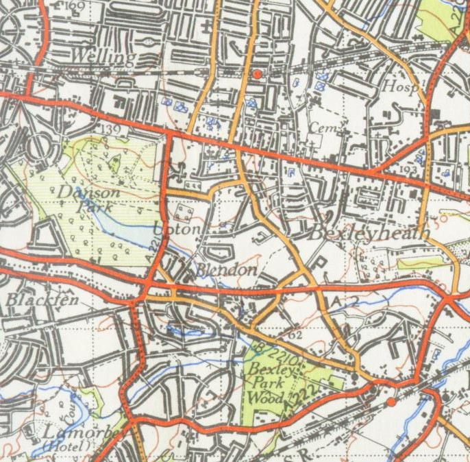 The hamlet of Upton shown on a 1945 OS area map of NW Kent around Bexleyheath